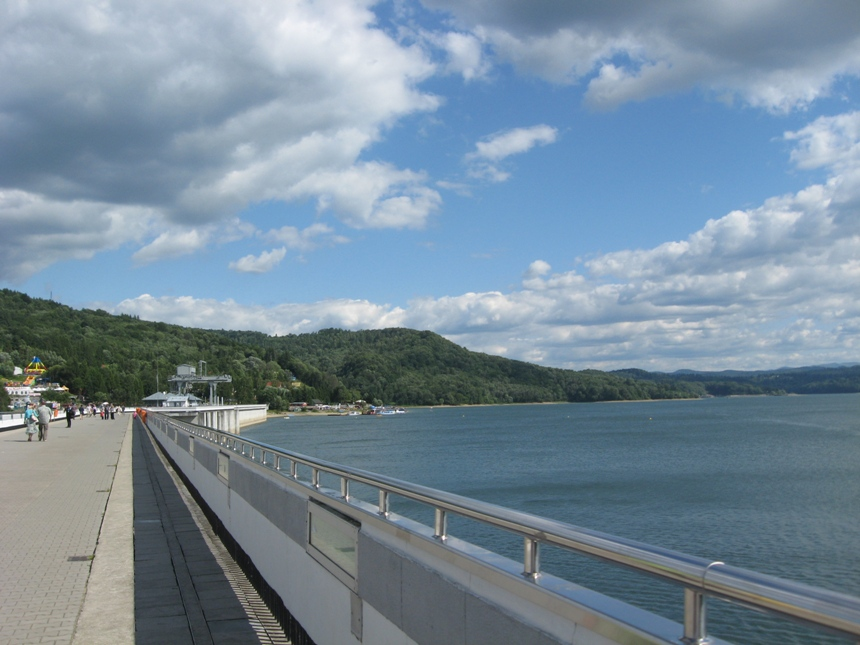 An artificial lake in the Bieszczady Mountains region of Poland.